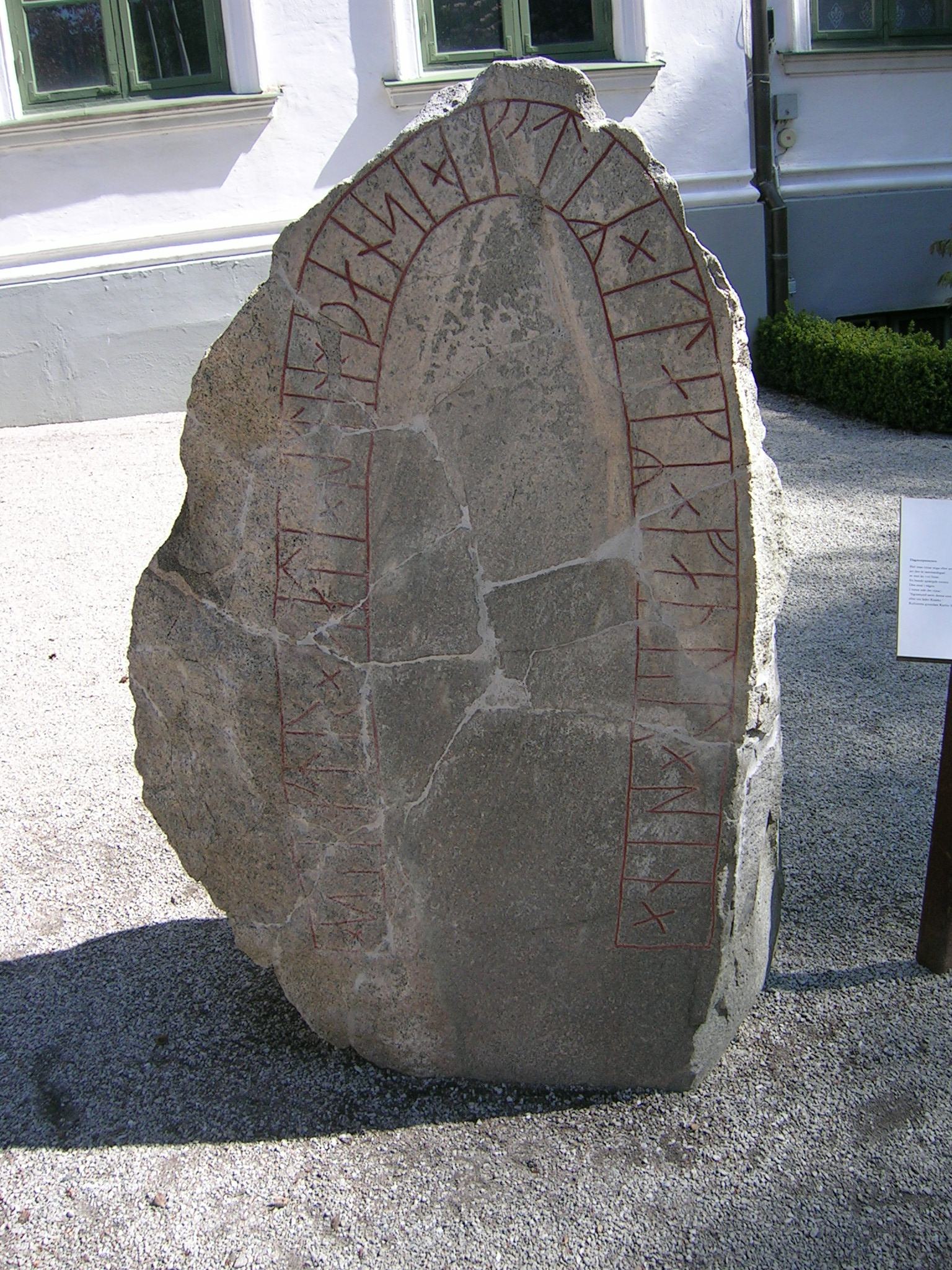 The Dagstorp Runestone, now standing outside the Kulturen outdoor museum in Lund, Sweden. The runestone DR 325. The inscription reads × si(k)mtr × sati × stin × þansi × iftiR × klakR × faþur × sin ×. In English "Sigmundr placed this stone in memory of Klakkr(?), his father."